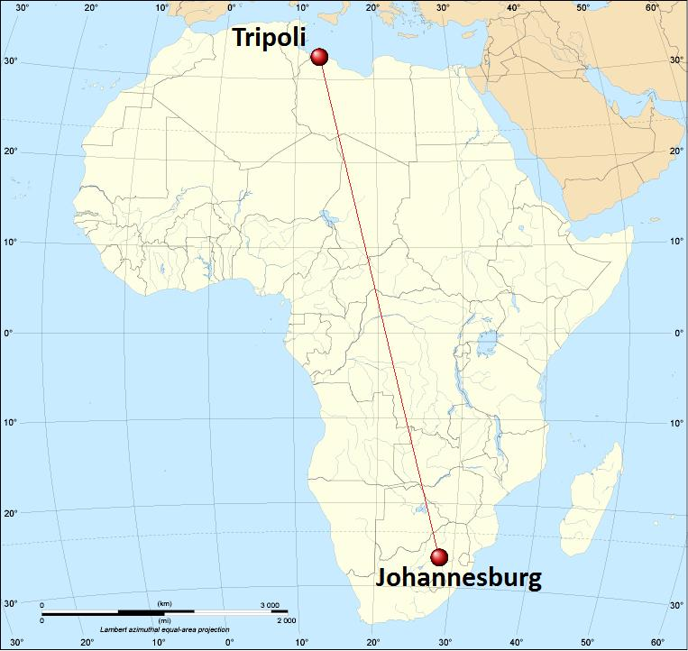 Map showing Afriqiyah Airways Flight 771's last flight. Flight 771 crashed May 12, 2010 06:10 local time. (04:10 UTC)